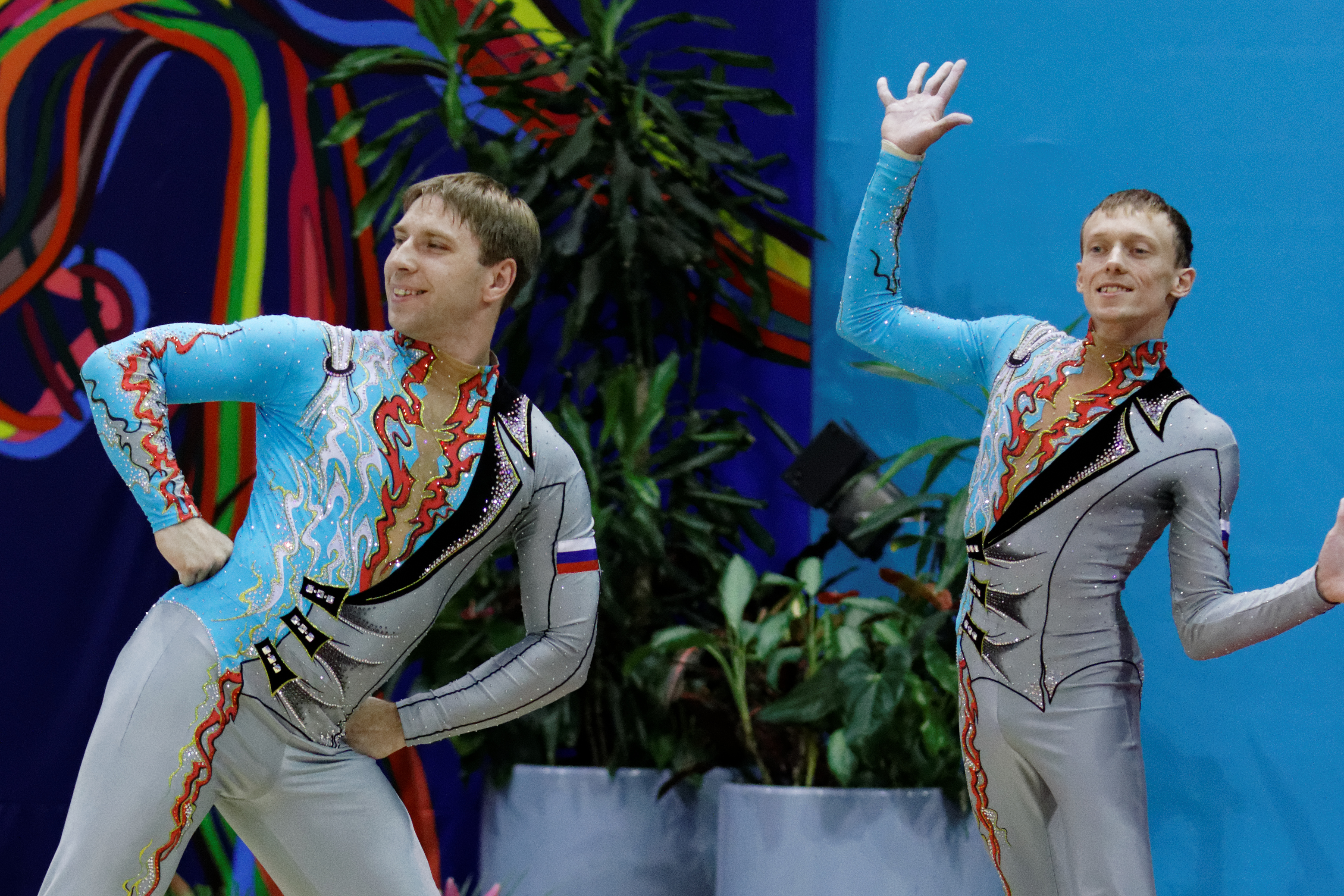 2014 Acrobatic Gymnastics World Championships, 10th-12 July, Levallois-Perret, France. Finals: men's pair. Russia.